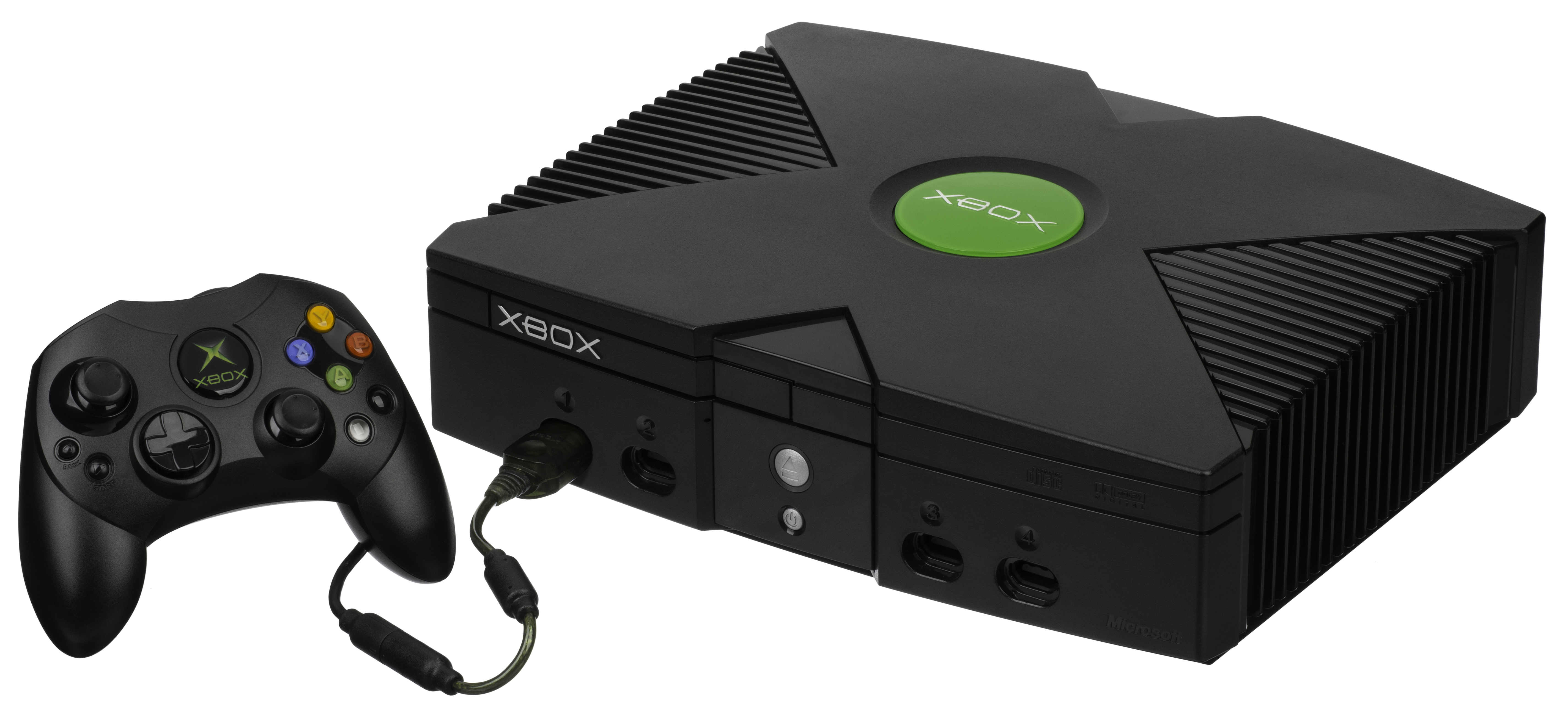 The Xbox, a sixth-generation gaming console made by Microsoft that was first released in 2001. The Xbox was Microsoft's first foray into the gaming console market, and was followed by the Xbox 360 in 2005. The console is shown here with the S controller, which replaced the console's original control as the standard pack-in controller. The console is notable for having a built-in hard drive, breakaway controller dongles and an Ethernet port to support Microsoft's online gaming service, Xbox Live.